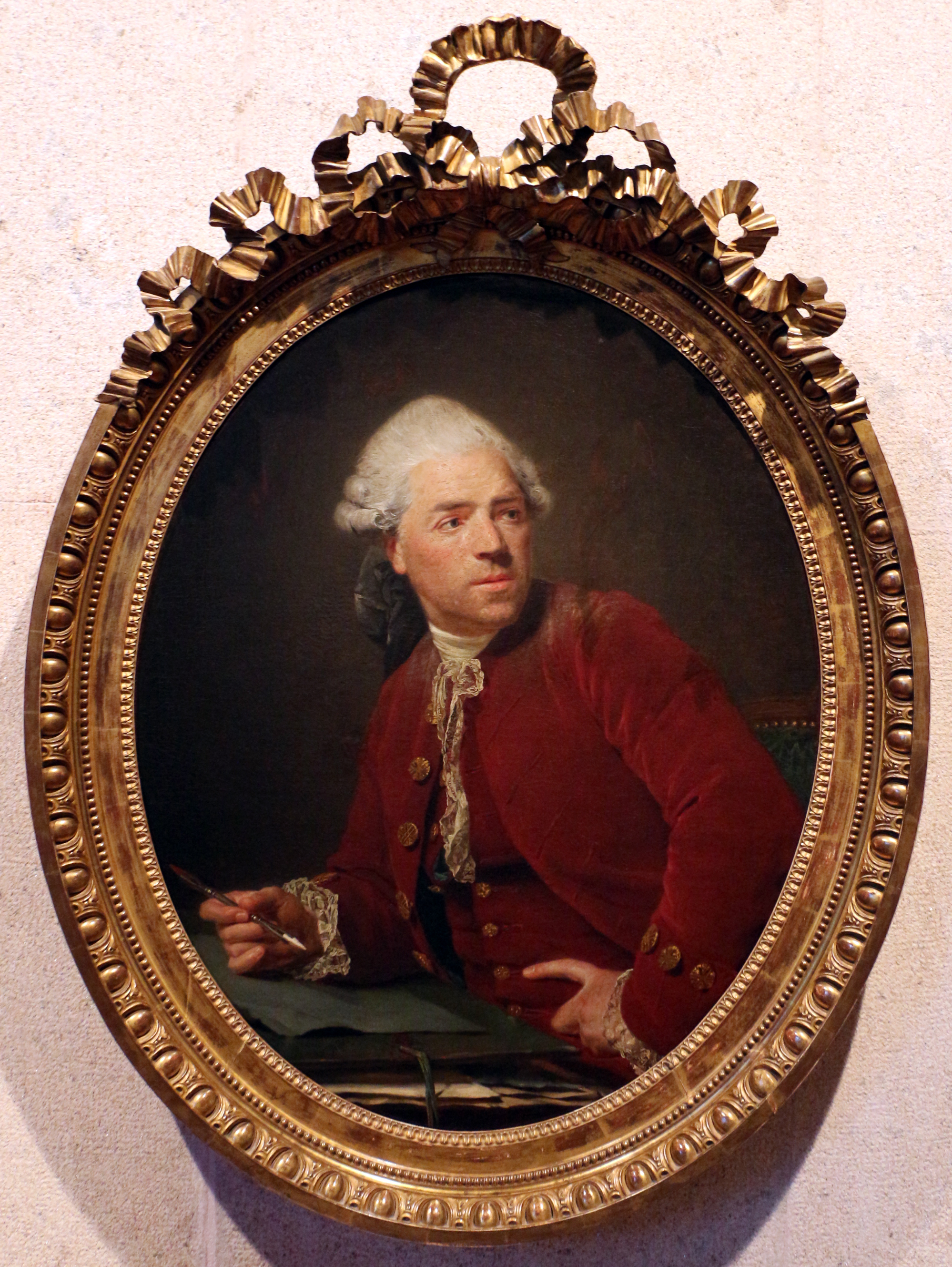 French paintings in the Calouste Gulbenkian Museum